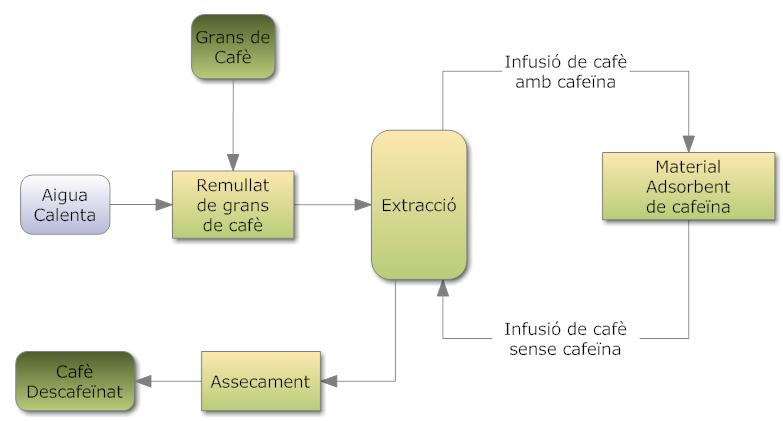 Water decaffeination, Currently used method